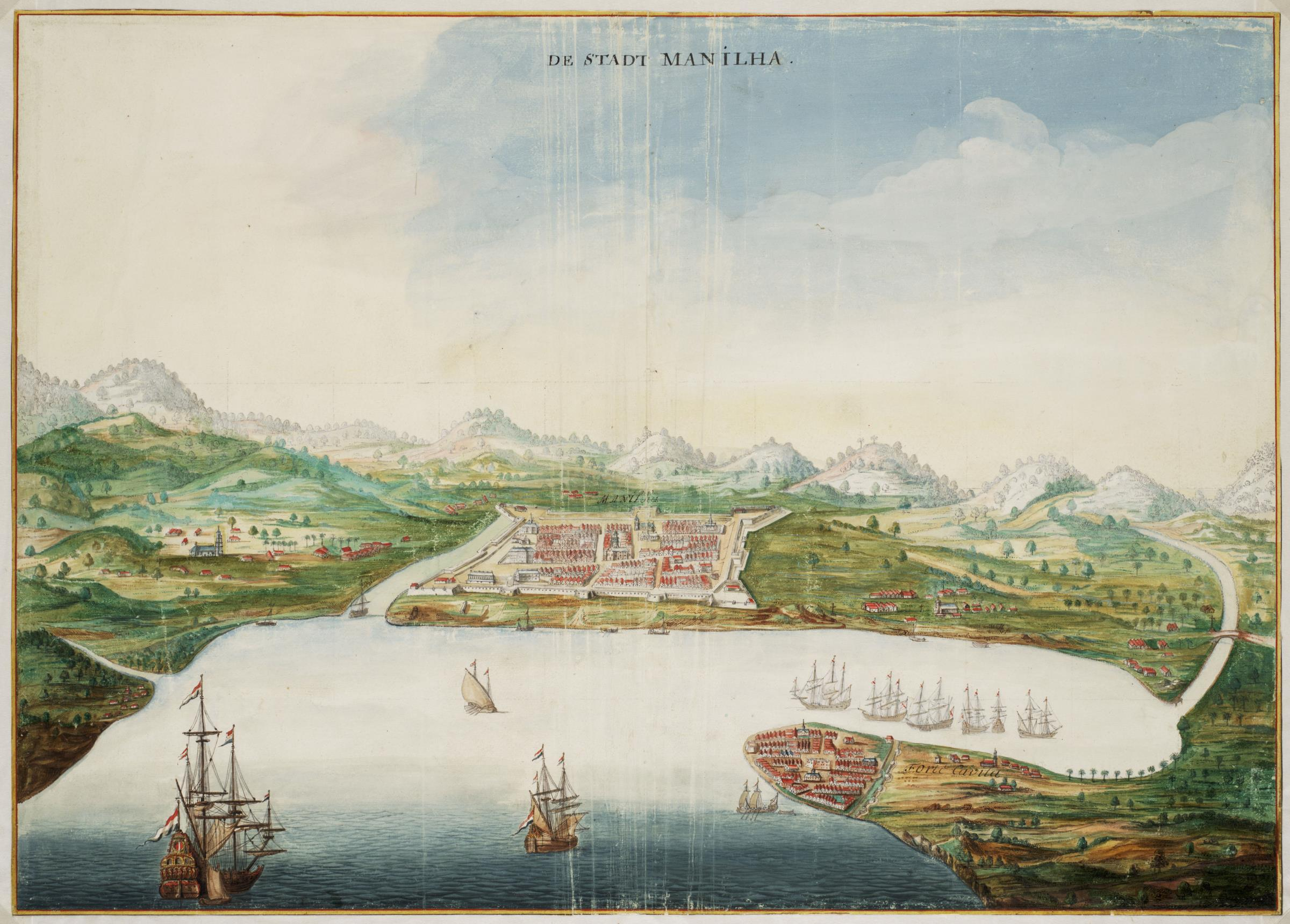 Title in the Leupe catalogue (NA): Gezicht in vogelvlucht op de stad Manilla van de zeezijde. Bird's eye view of Manila. De Stadt Manilha. Remarks: the chart forms part of the Vingboons Atlas.